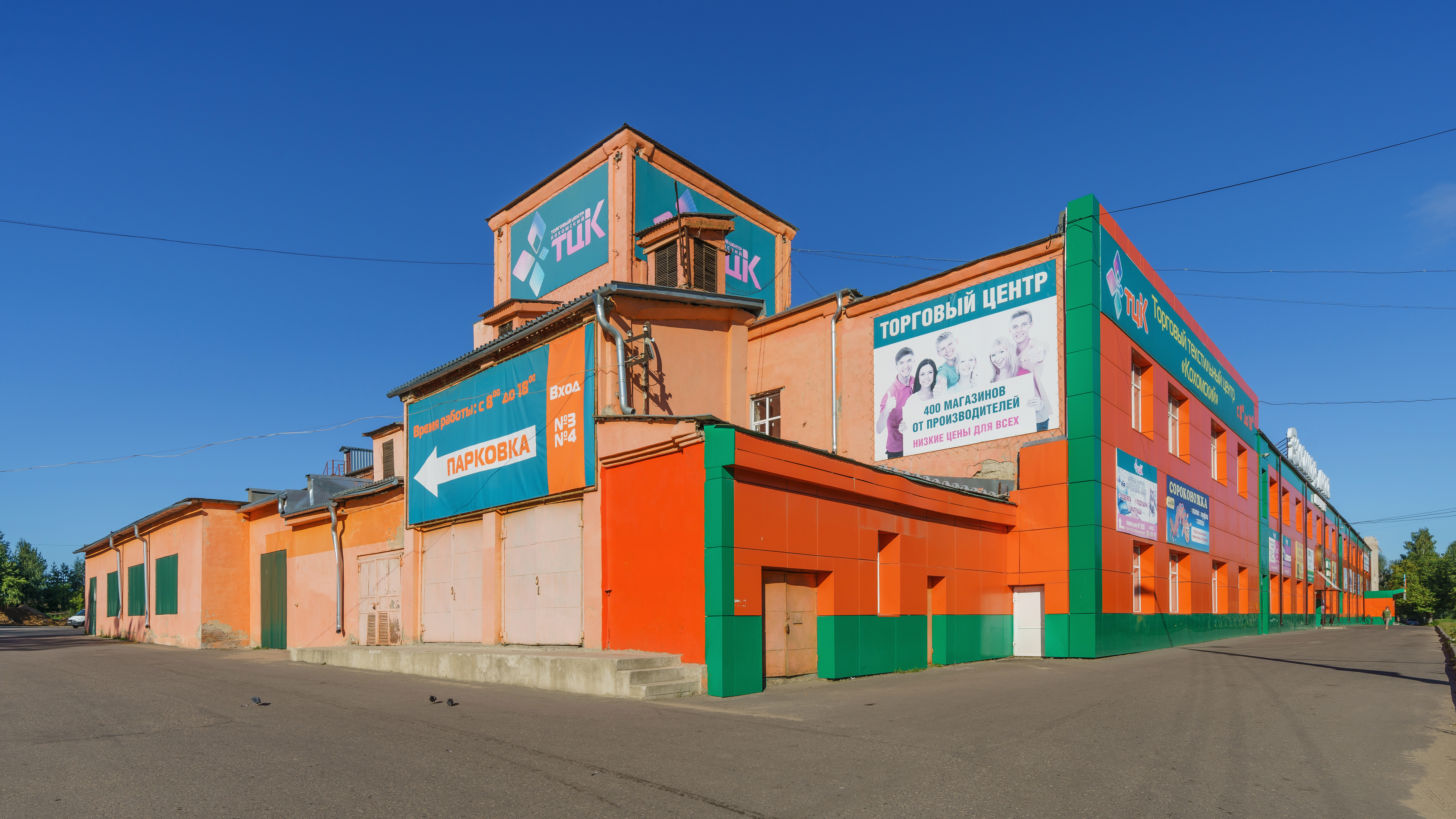 Former weaving mill in Kokhma, Ivanovo Oblast, Russia.